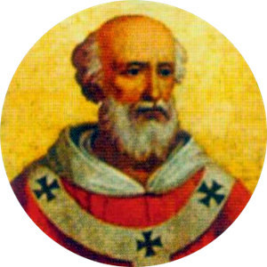 Portait of Pope Formosus in the Basilica of Saint Paul Outside the Walls, Rome